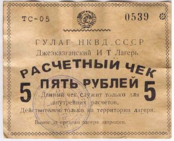 Banknote of 5 rubles which was used on the territory of Dzezkazganlag (GULAG camp)